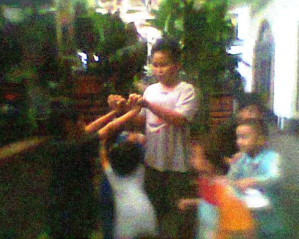 oray-orayan